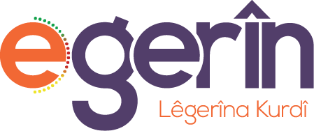 Egerin Logo